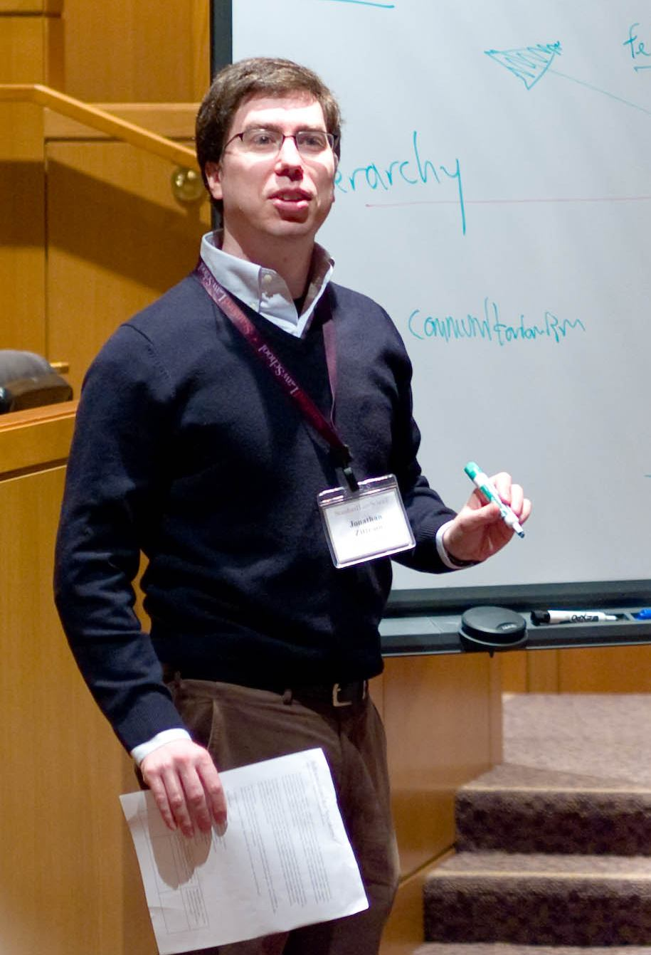 Jonathan Zittrain speaking in 2008. Image is cropped. See other versions.